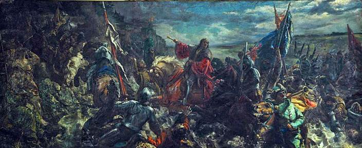 The Battle of Orsha